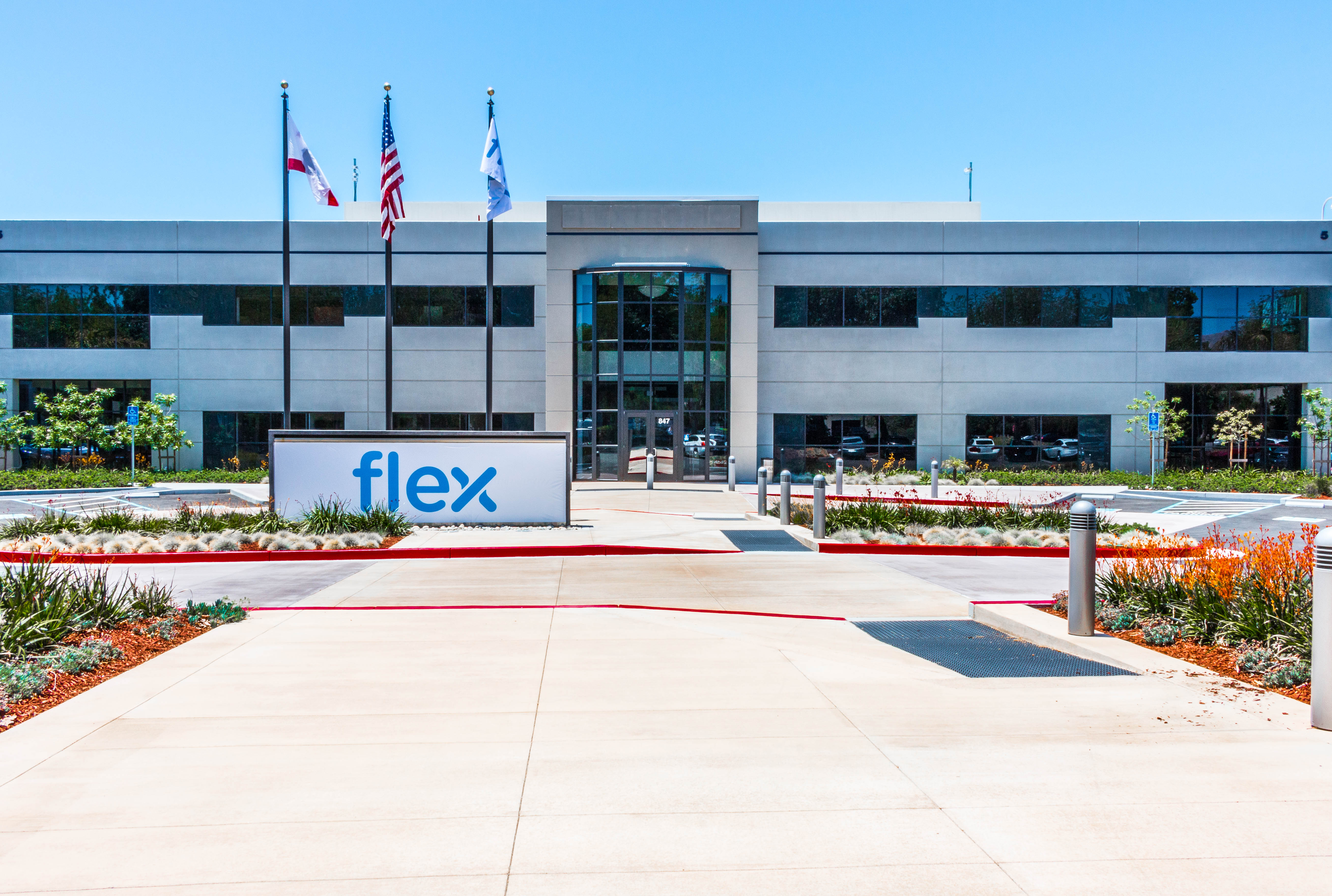 Flex International Administrative Building on the Flex campus at 847 Gibralter Dr., Milpitas CA 95035 US